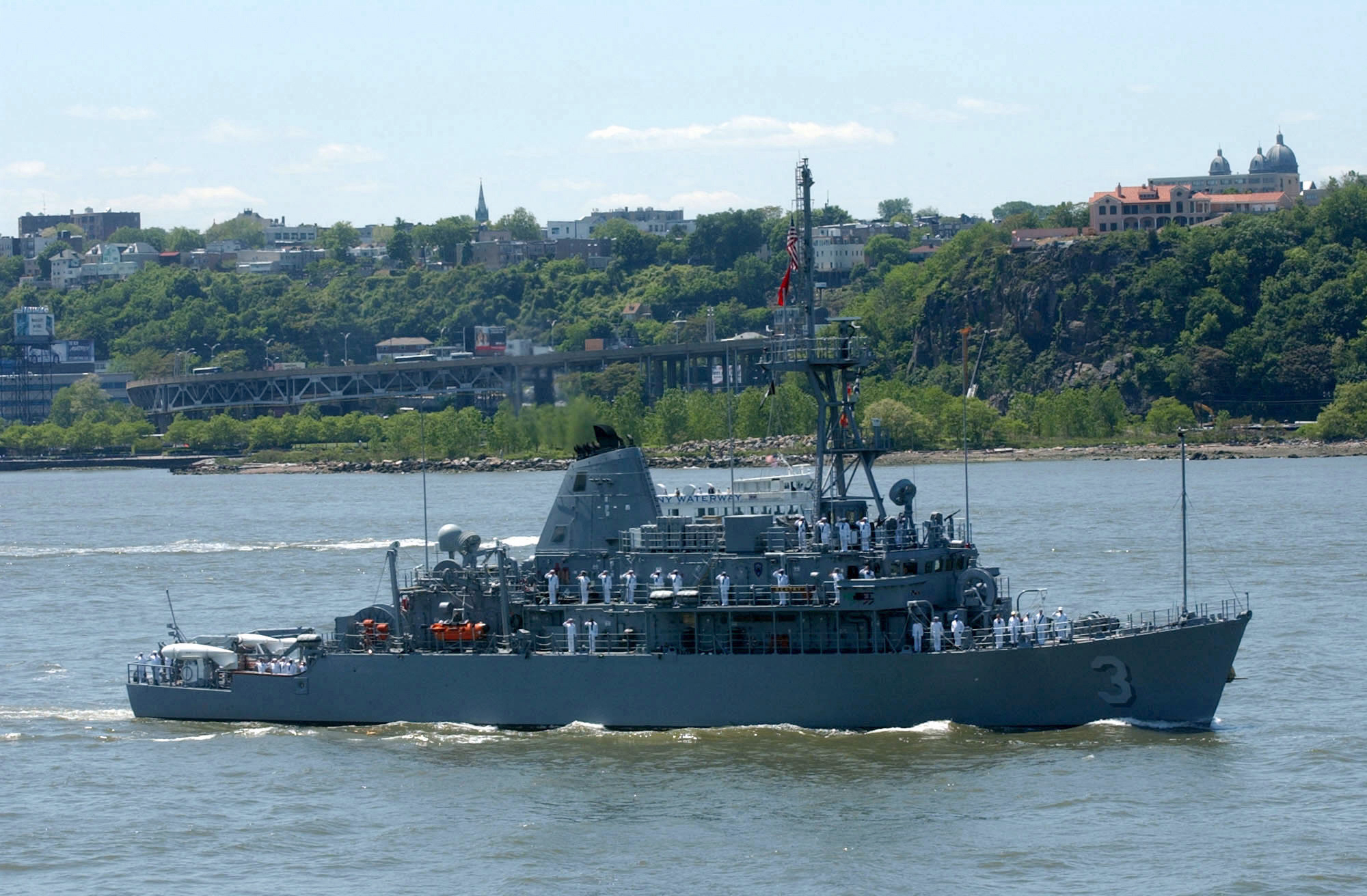 New York City (May 22, 2002) — The mine countermeasures ship USS Sentry (MCM-3) renders honors to New York City as she participates in the “Parade of Sail” up the Hudson River. More than 6000 Sailors, Marines and Coast Guard personnel aboard 22 ships sailed into New York during the 15th Annual Fleet Week celebration.